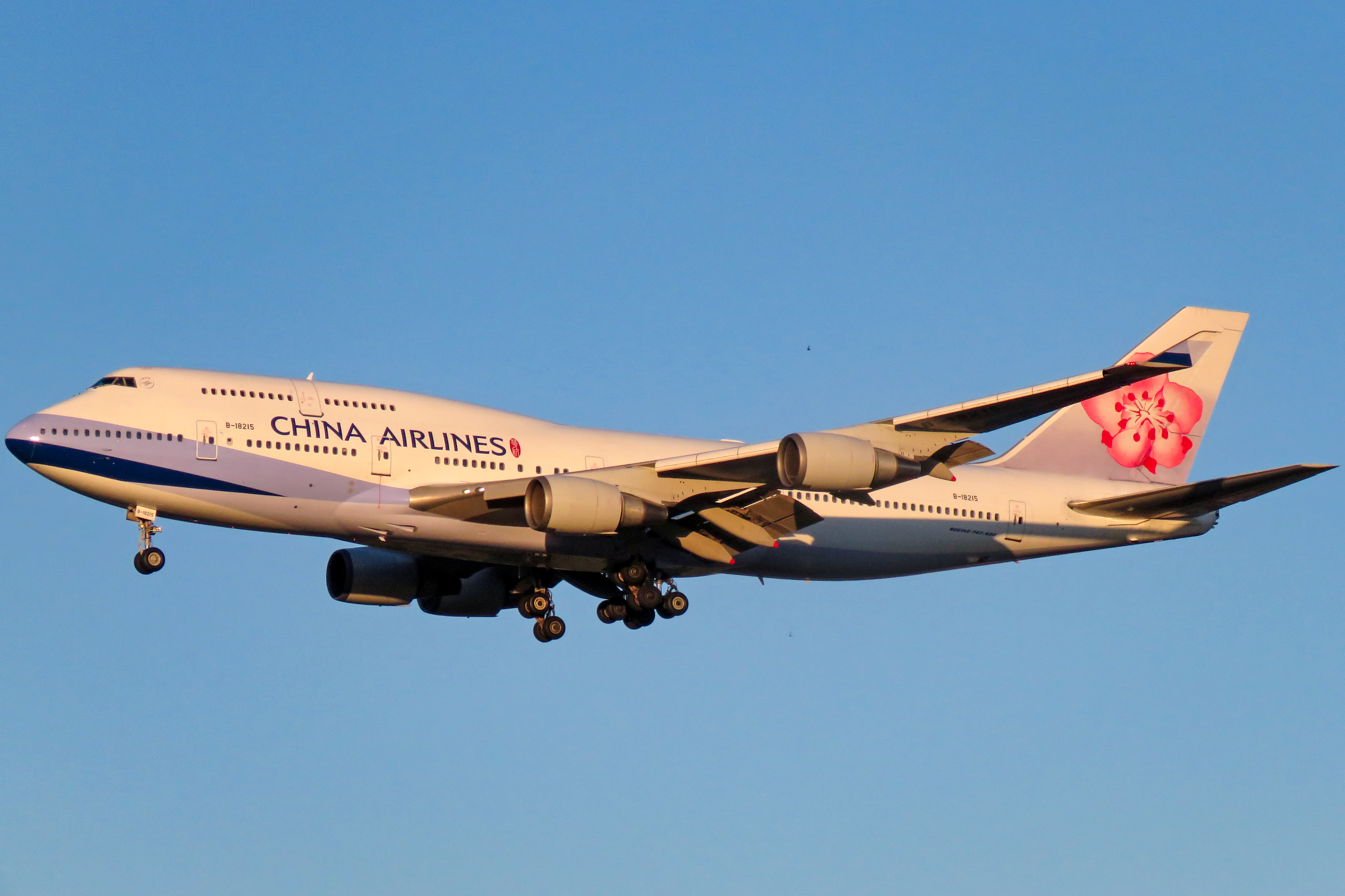 Dynasty 517 from Taipei, using the last 747-400 PAX ever built and catching the last sunset glow.